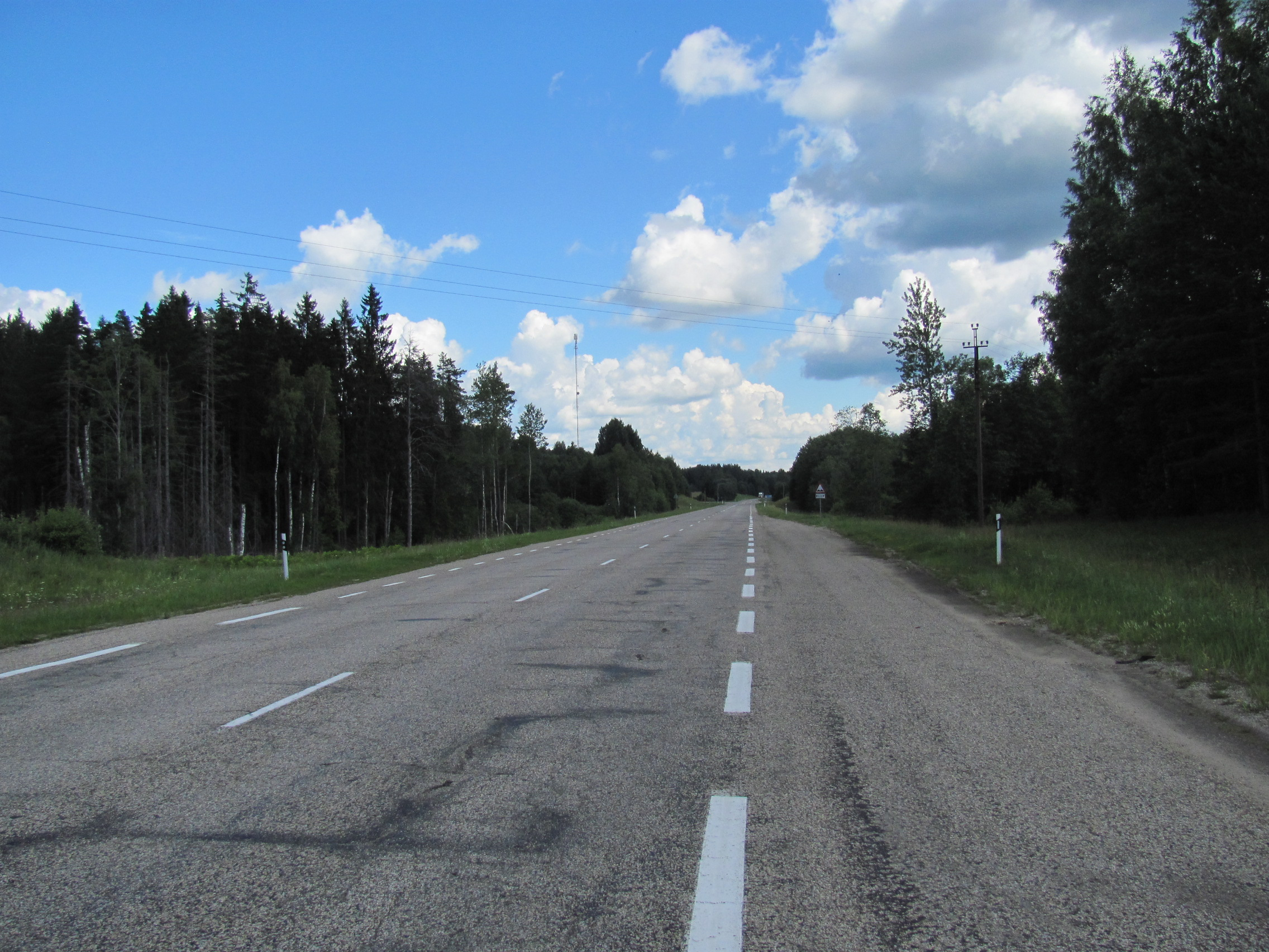 Estonian part of the Riga-Pskov highway, close to the Latvian border.